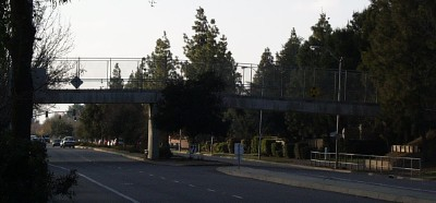 This is the Covell bike overpass that connects Community Park to the North Davis greenbelt.